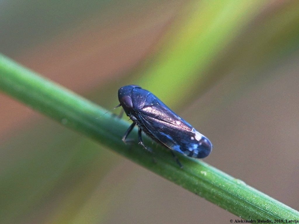 Neoaliturus fenestratus